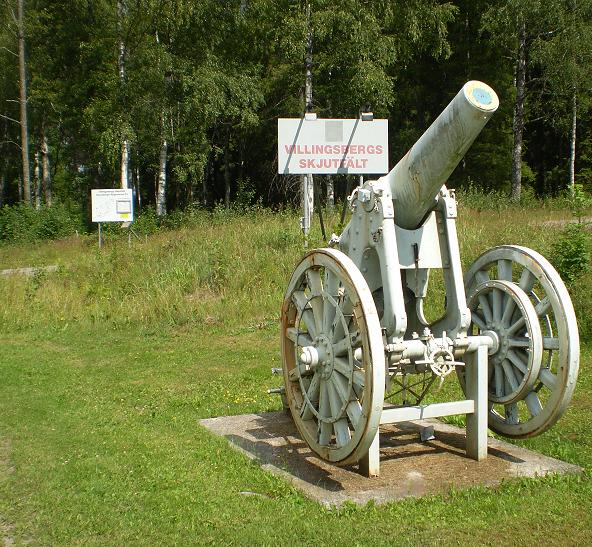 The entry to Villingsberg military exercisefield.